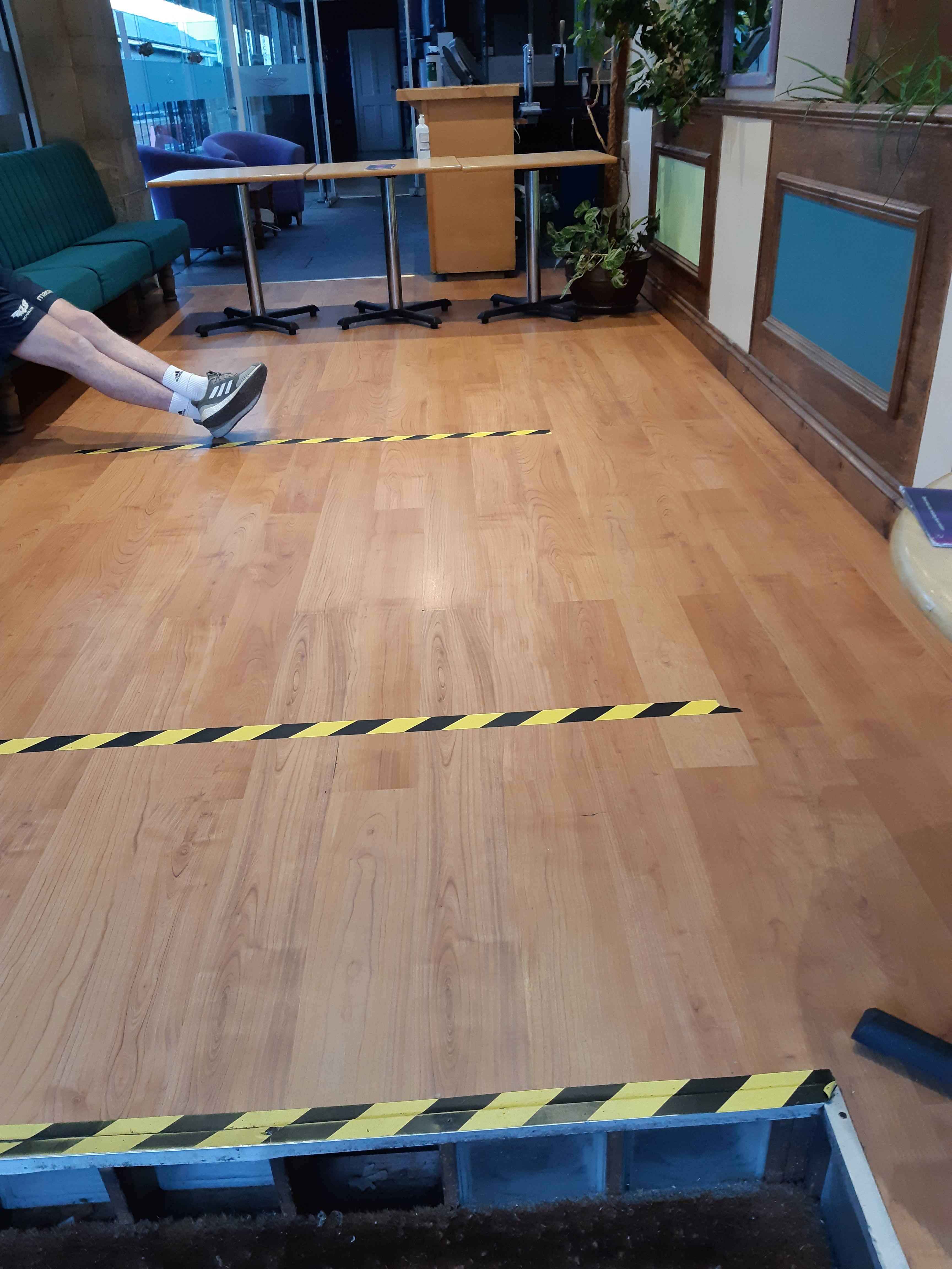 marked lines to keep space in restaurant during queuing COVID-19